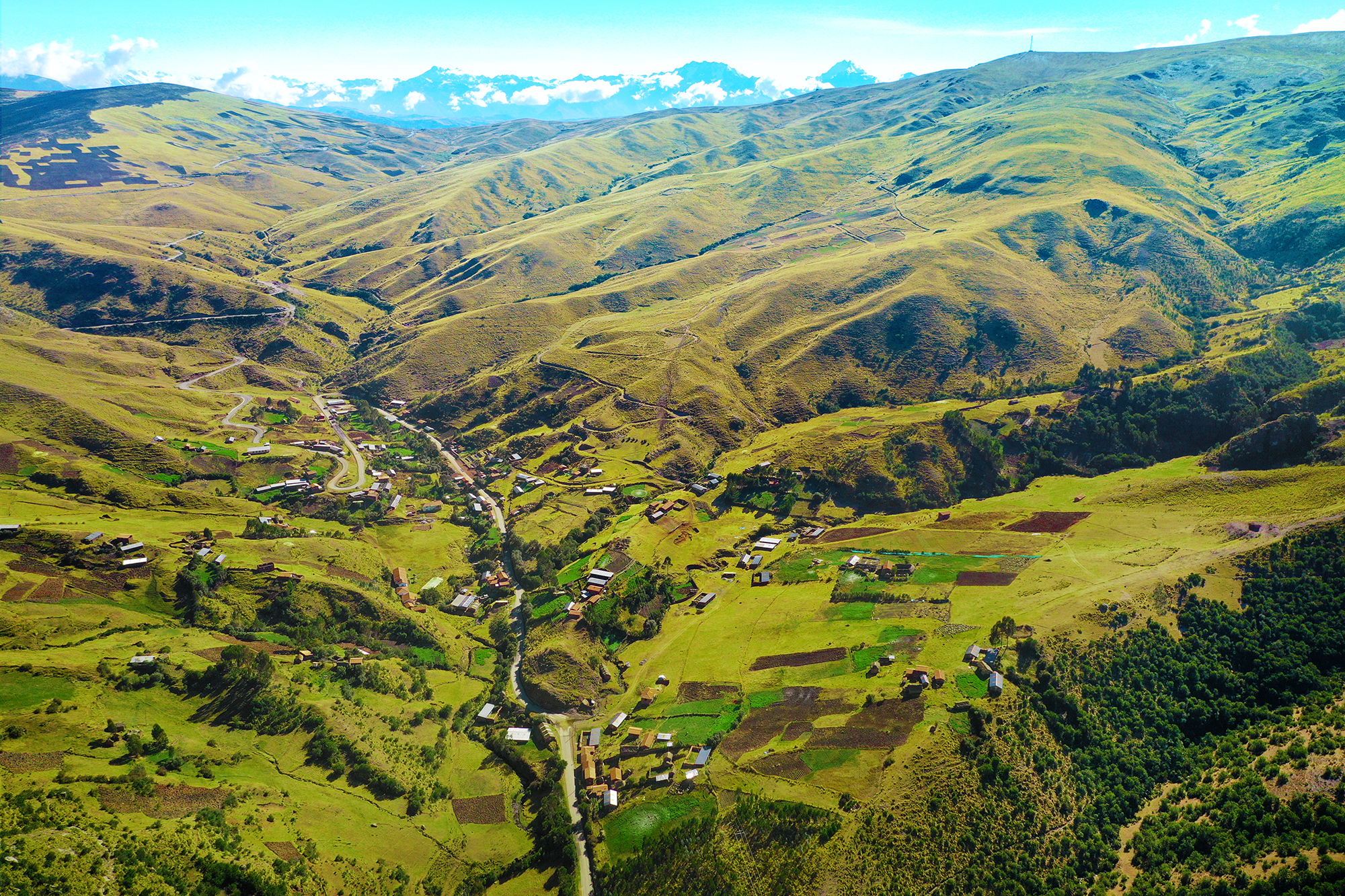 The town of Ocra as seen from the air